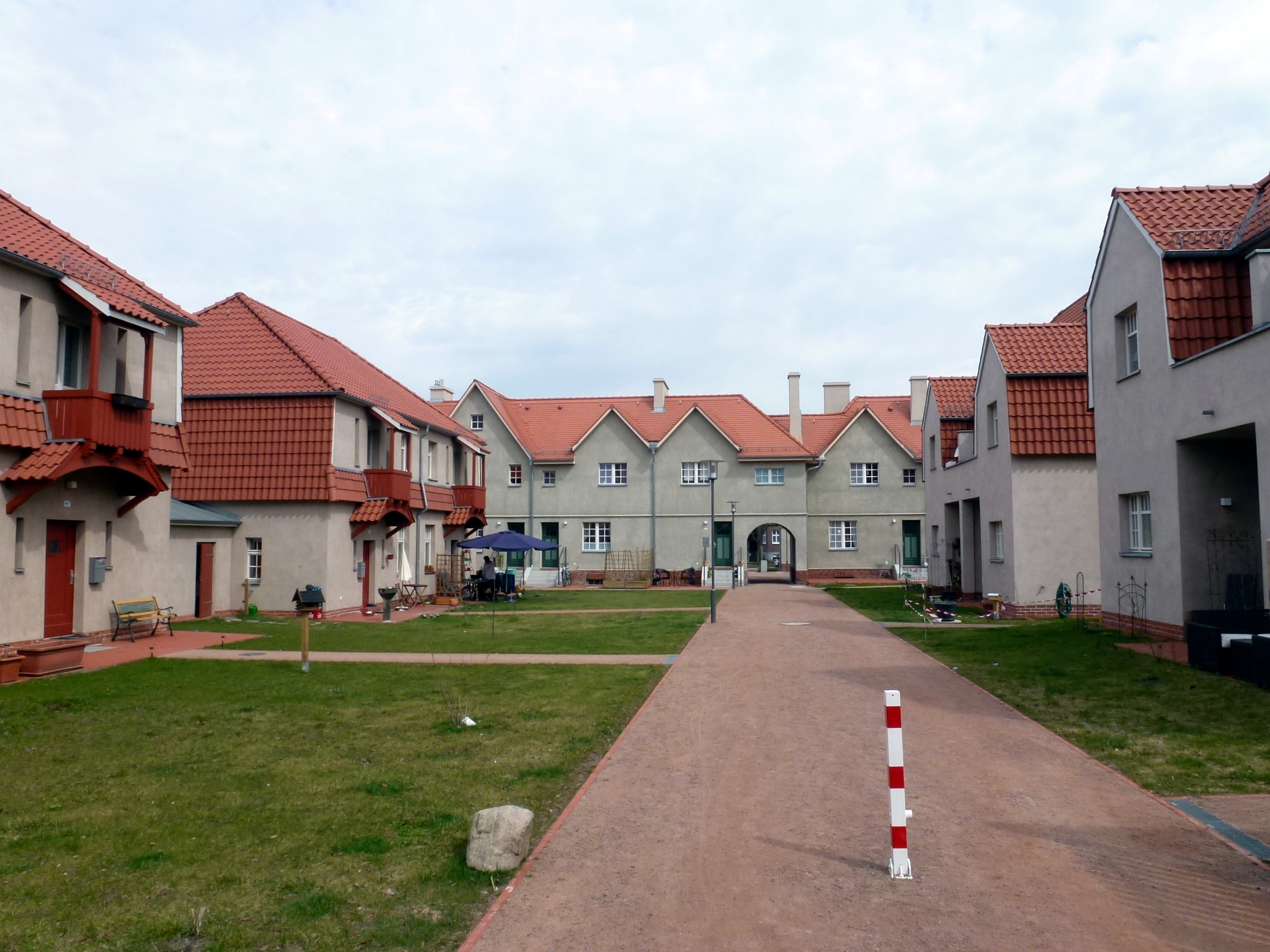 Berlin-Altglienicke Preußensiedlung